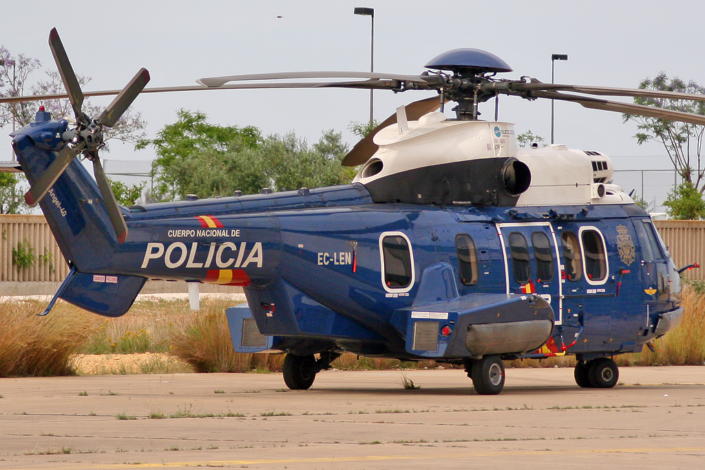 At Seville Airport